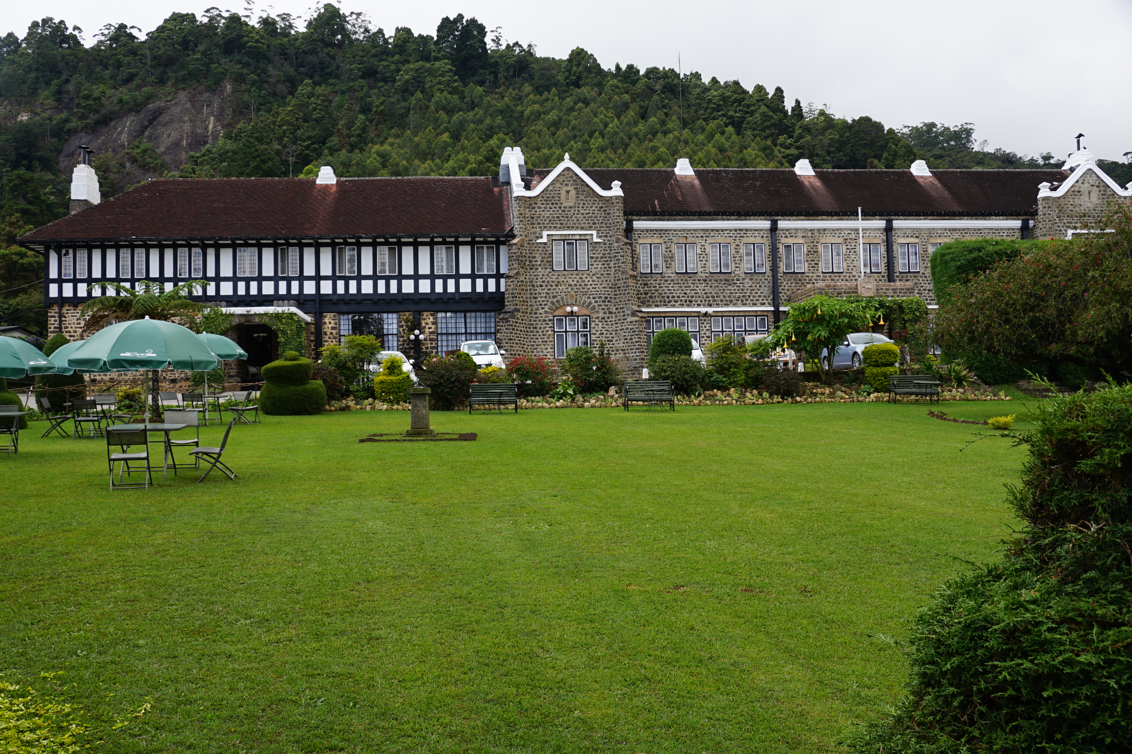 The exterior of the Hill Club in Nuwara Eliya - taken from the front lawn